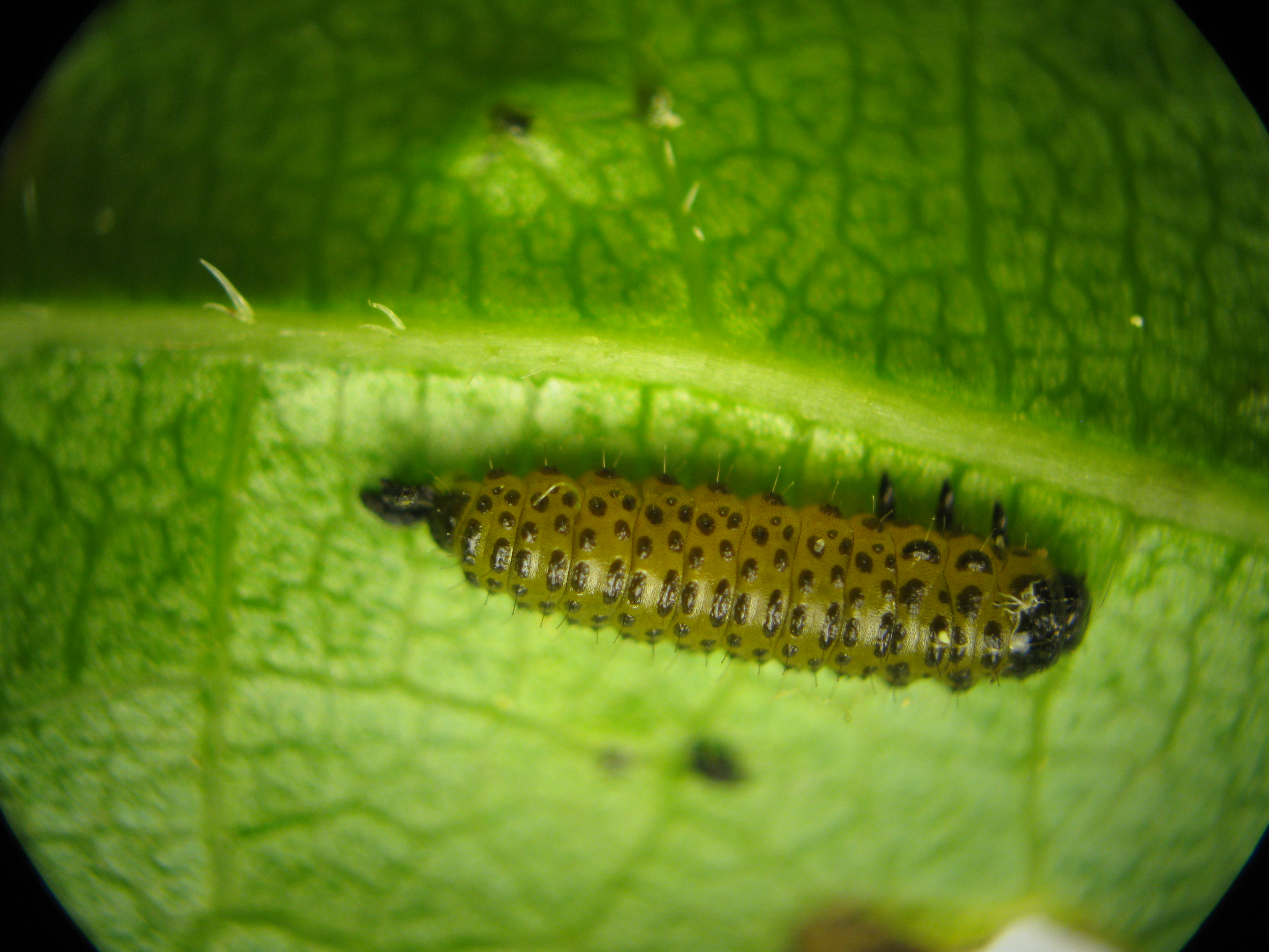 Larva of flea beetle, Altica, on wild grape leaf, 7 mm. Willow Grove, Montgomery County, Pennsylvania, USA.